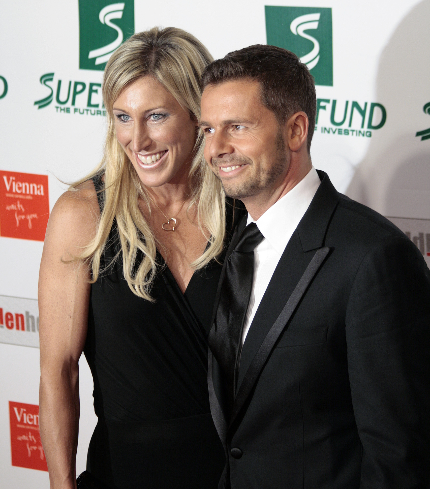 Stephanie Graf and Christian Baha at the Women's World Award 2009 (Wiener Stadthalle, Vienna, Austria).